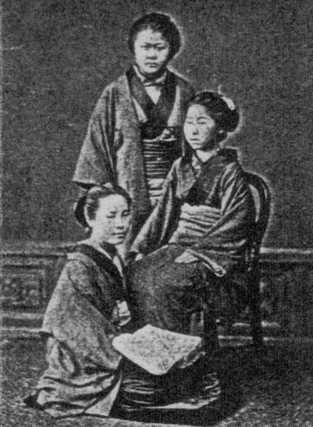 Kane Watanabe (Japanese, *1859, †1945) and her two friends